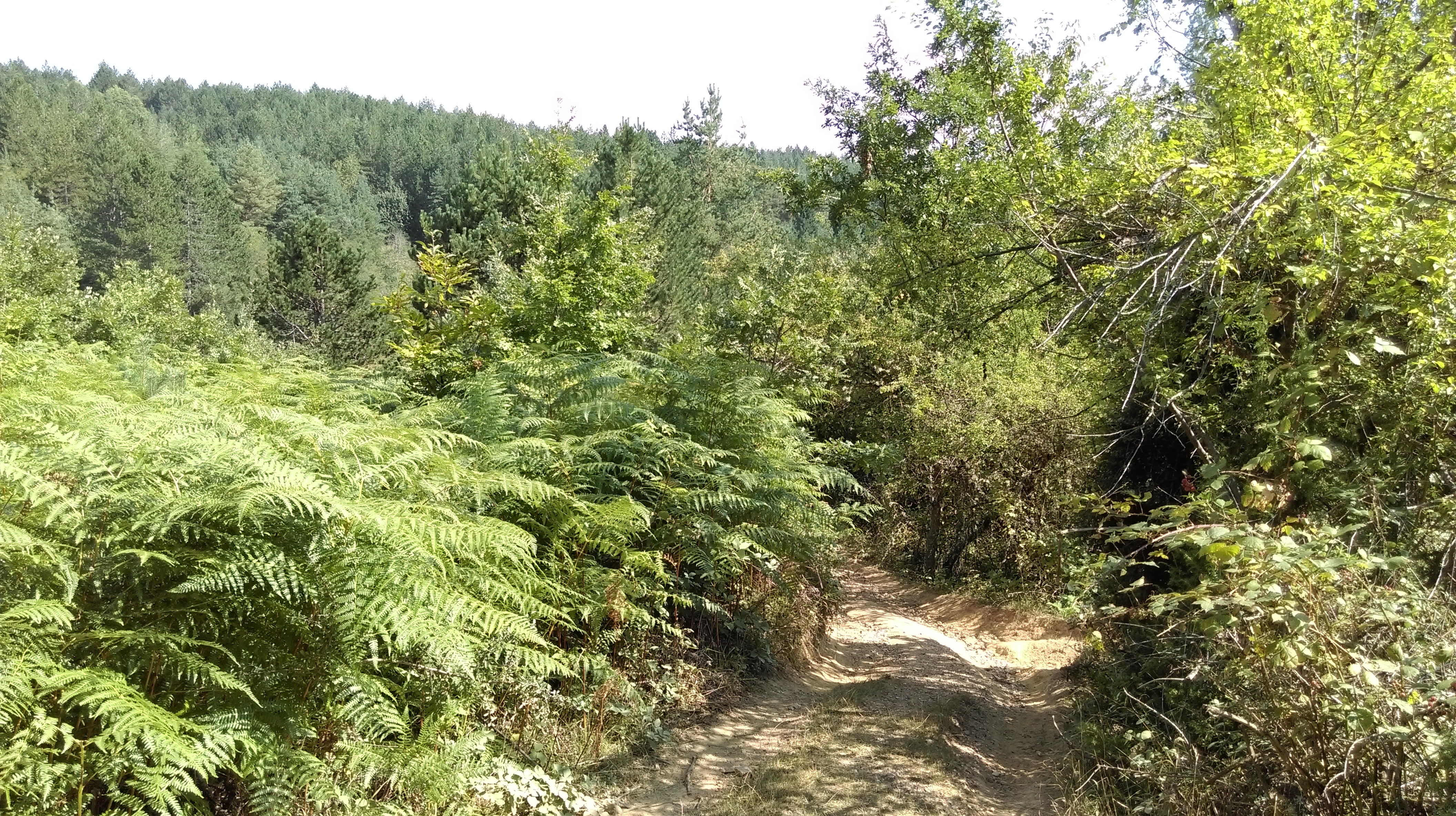 Car Samoil Secondary School (Former Ottoman barracks)